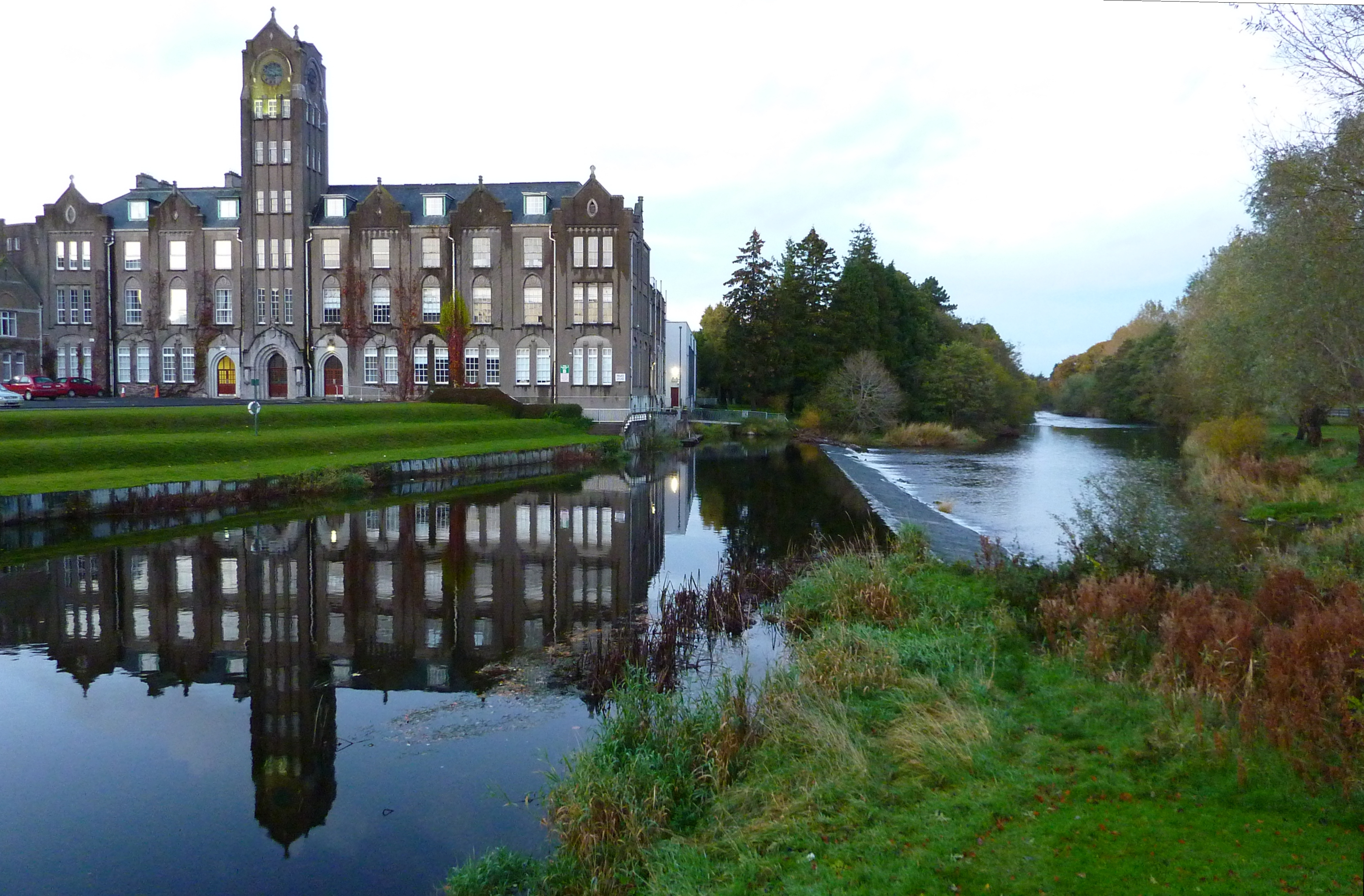 A view of Newbridge College and weir over River Liffey